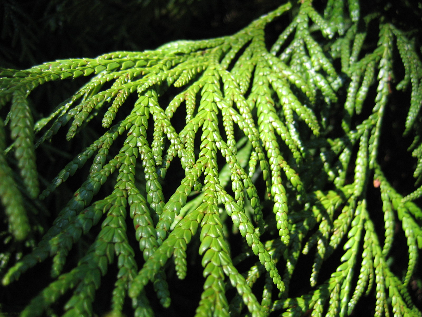 Thujopsis dolabrata 'Lutea', cultivated in Wrocław University Botanical Garden, Wrocław, Poland.